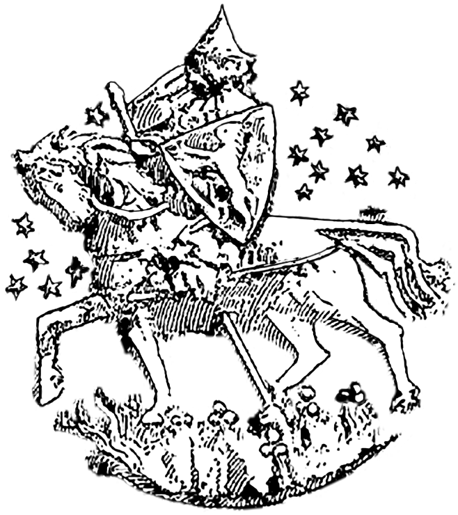 Coat of arms of the Principality with Yuri I of Galicia seal. The beginning of the XIV century.